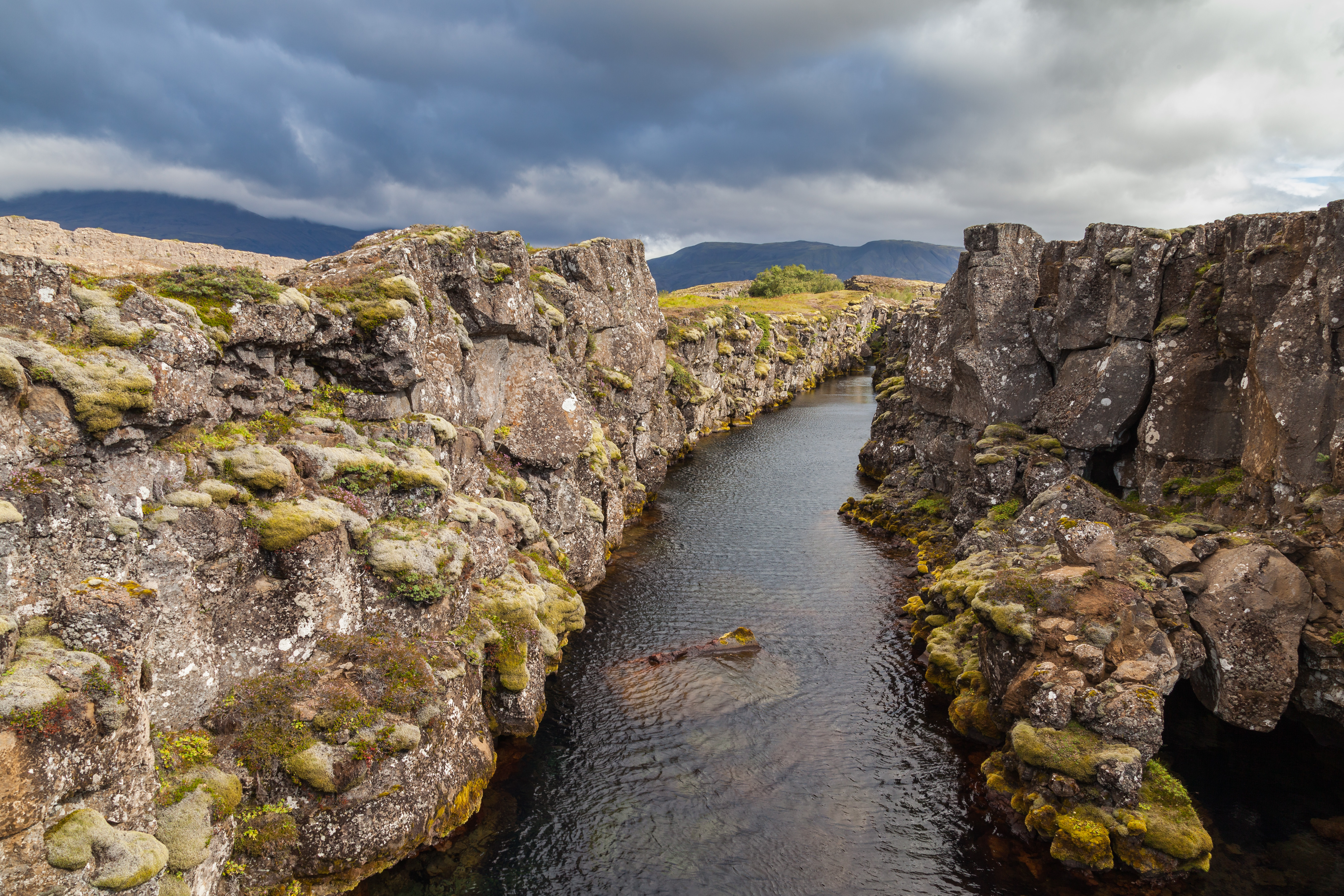 Nikulasargja canyon, Þingvellir National Park, Suðurland, Iceland